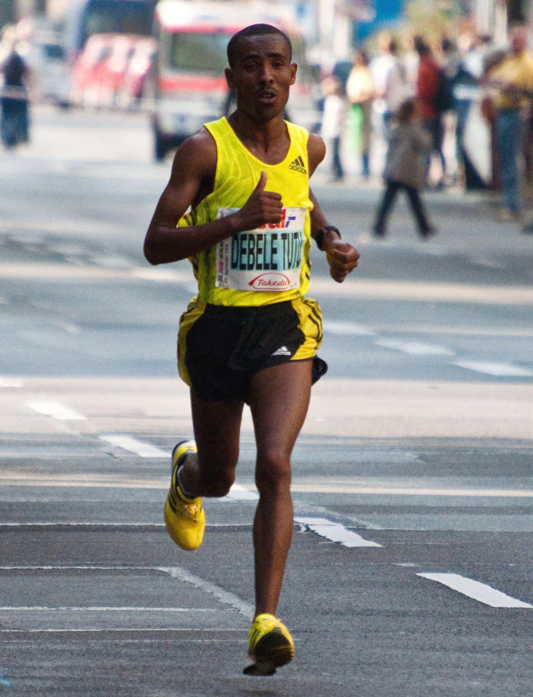 Dereje Debele Tulu (ETH) is being chased by Alfred Kering (KEN) and Grima Assefa (ETH). They came in fourth, fifth and sixth respectively. Taken while on holiday in Berlin for a long weekend.